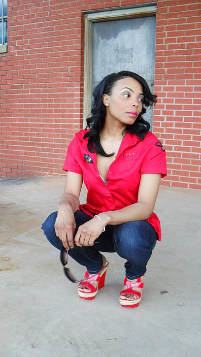 Chastain Stone at a photoshoot.